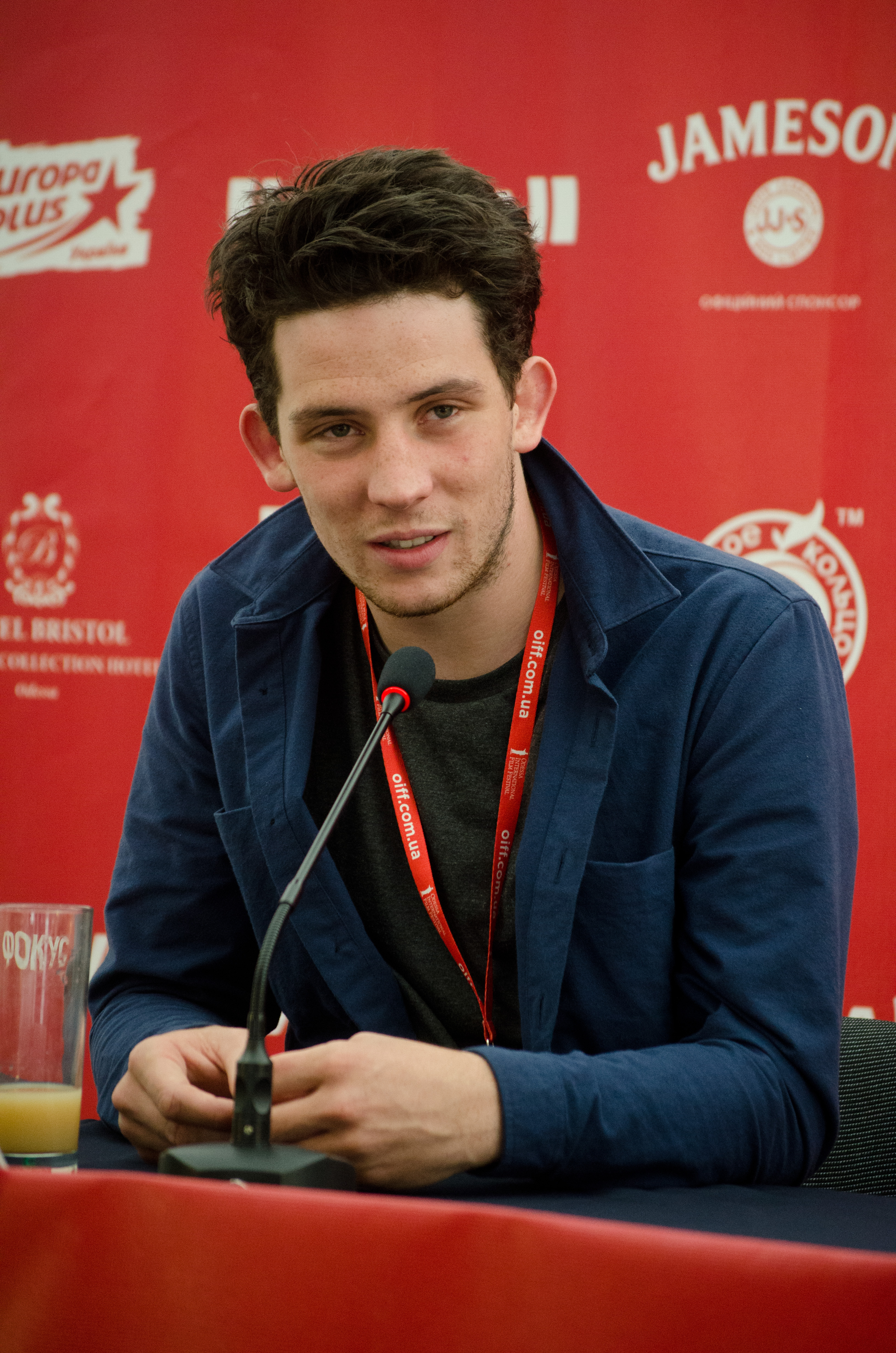 British actor Josh O'Connor at the 6th Odessa International Film Festival.